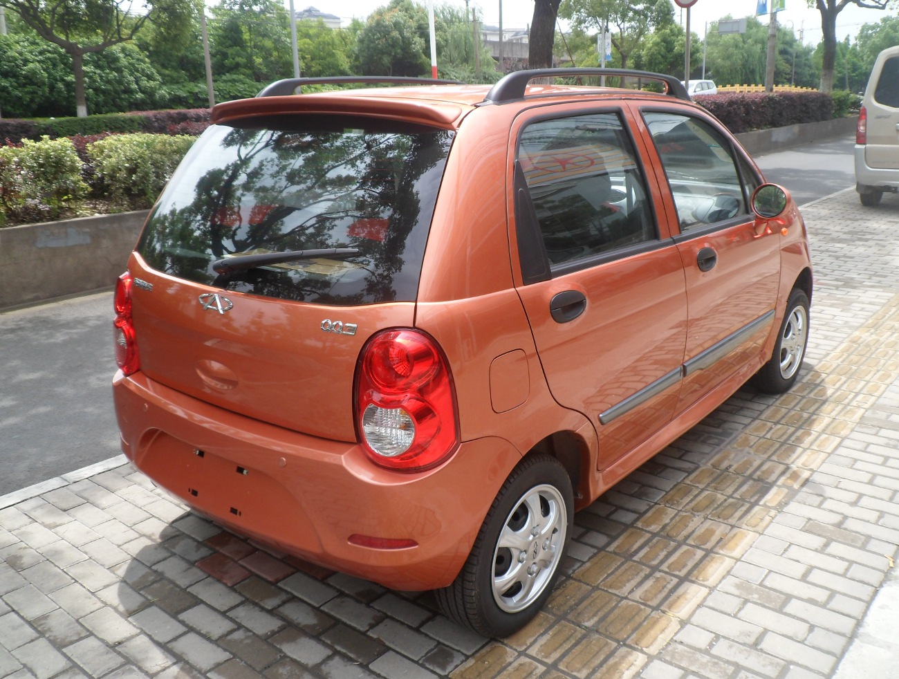 Chery QQ3 Sport photographed in Shanghai, China.